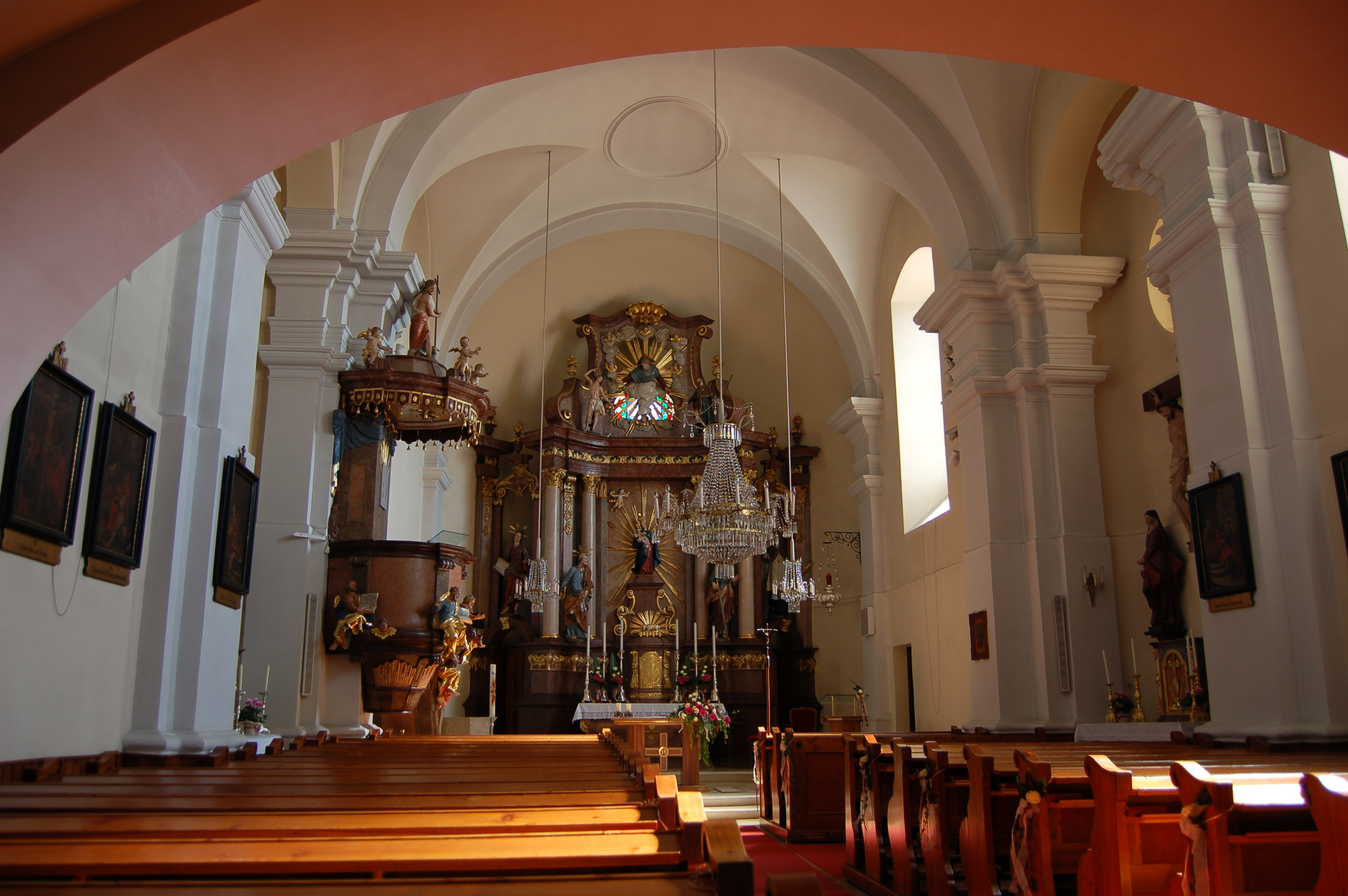 Interior of Assumption of Mary parish church in Hollenthon, Lower Austria